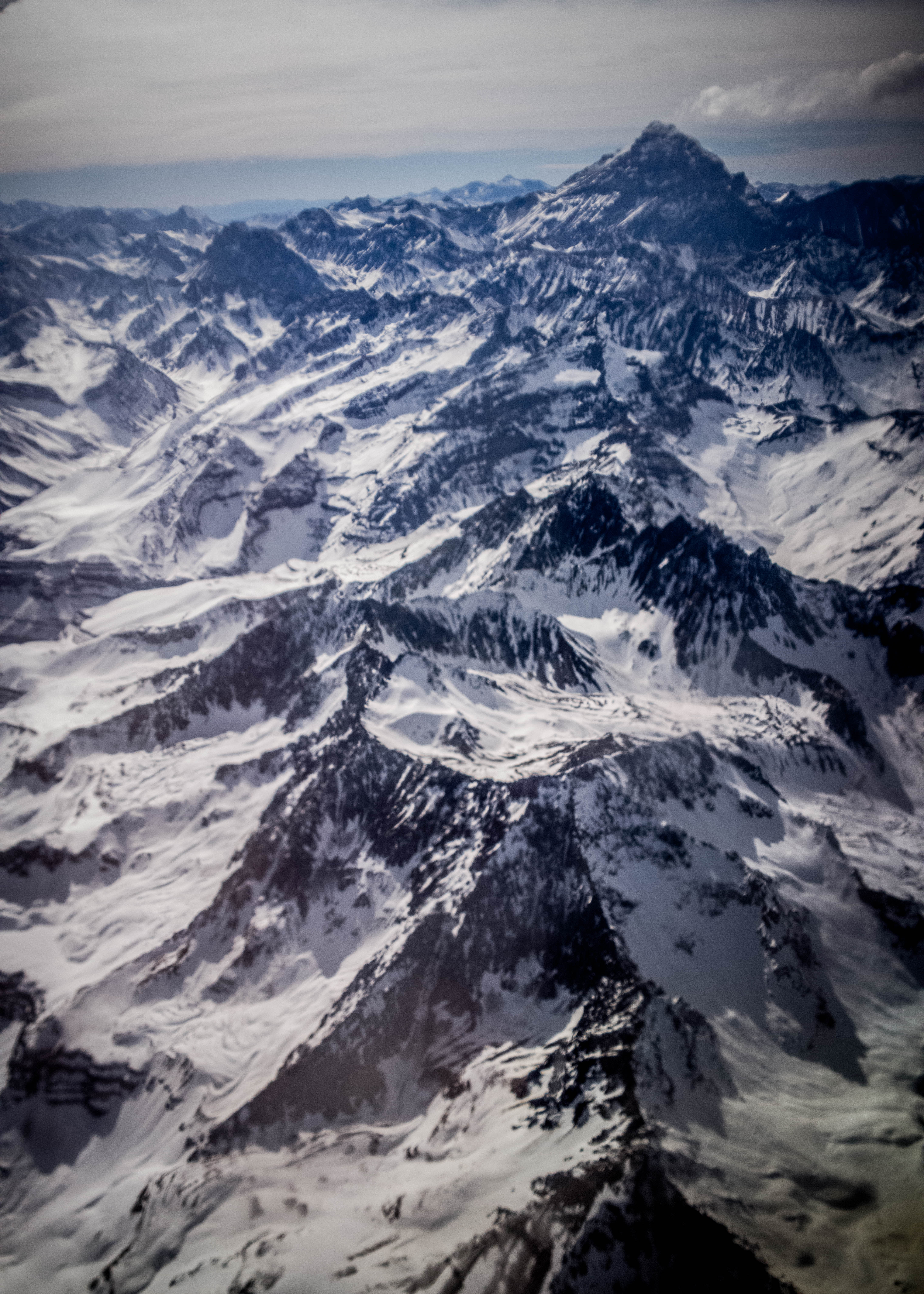 Aconcagua